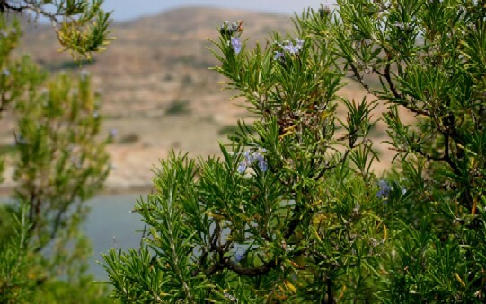 Rosemary (Rosmarinus officinalis) på sit voksested i Agriates-garrigue'en på Korsika.